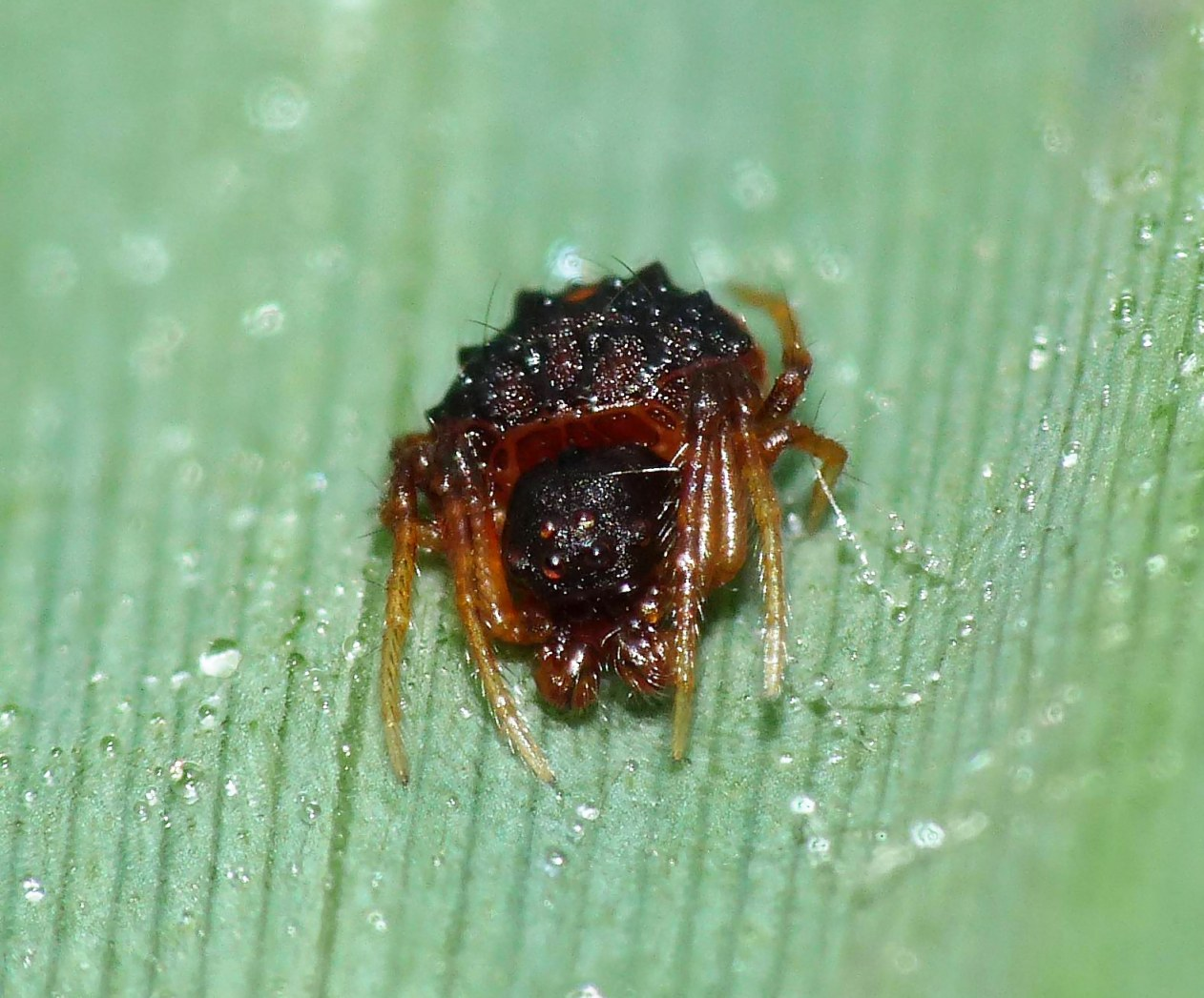 Cyrtarachne ixoides, male, near Livorno, Tuscany, Italy